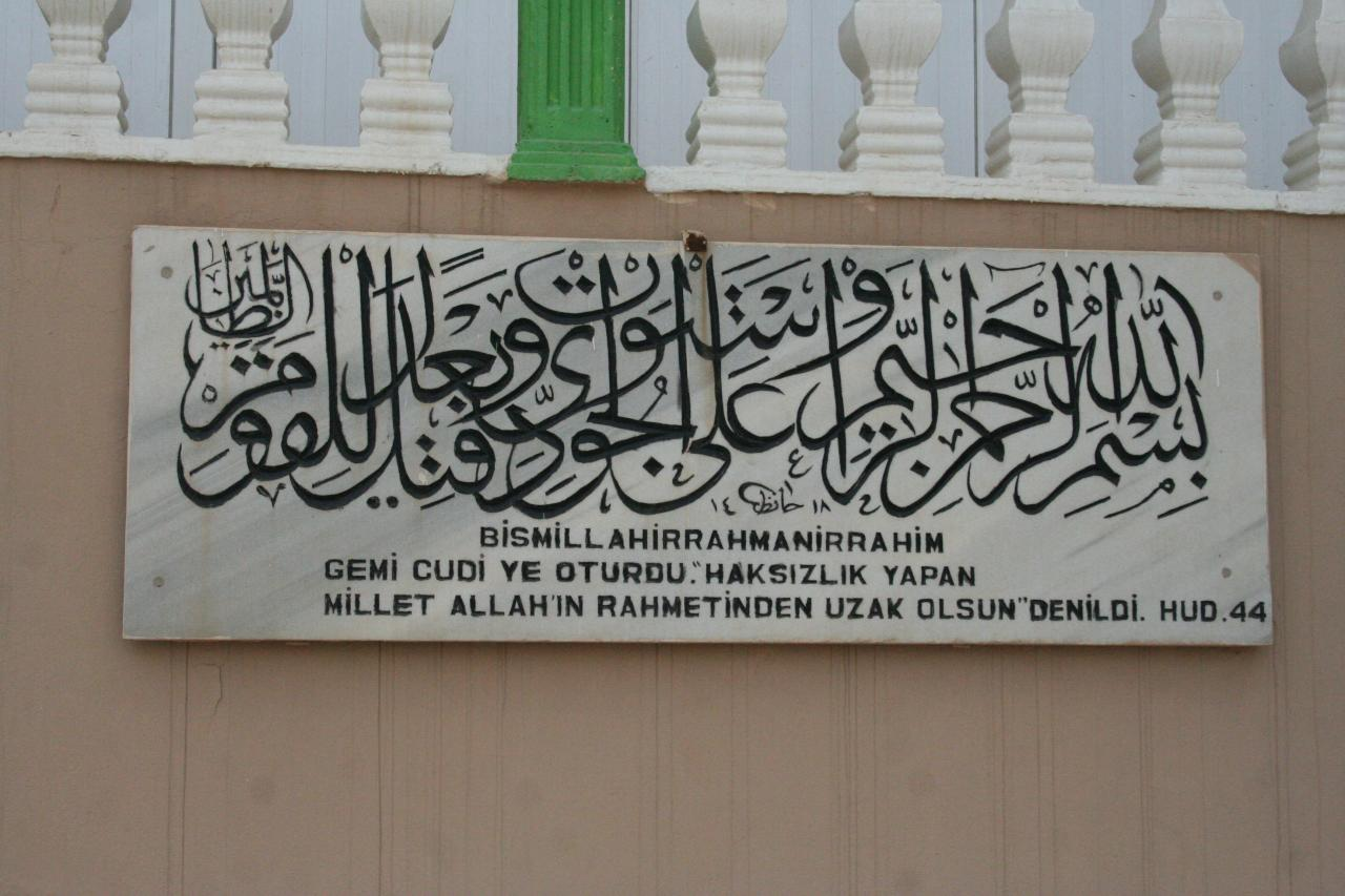 Muslim Prayer to Noah Mausoleum in the city of Cizre, Turkey